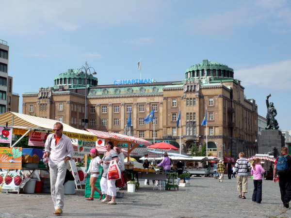 The Market Square, Vaasa, Finland